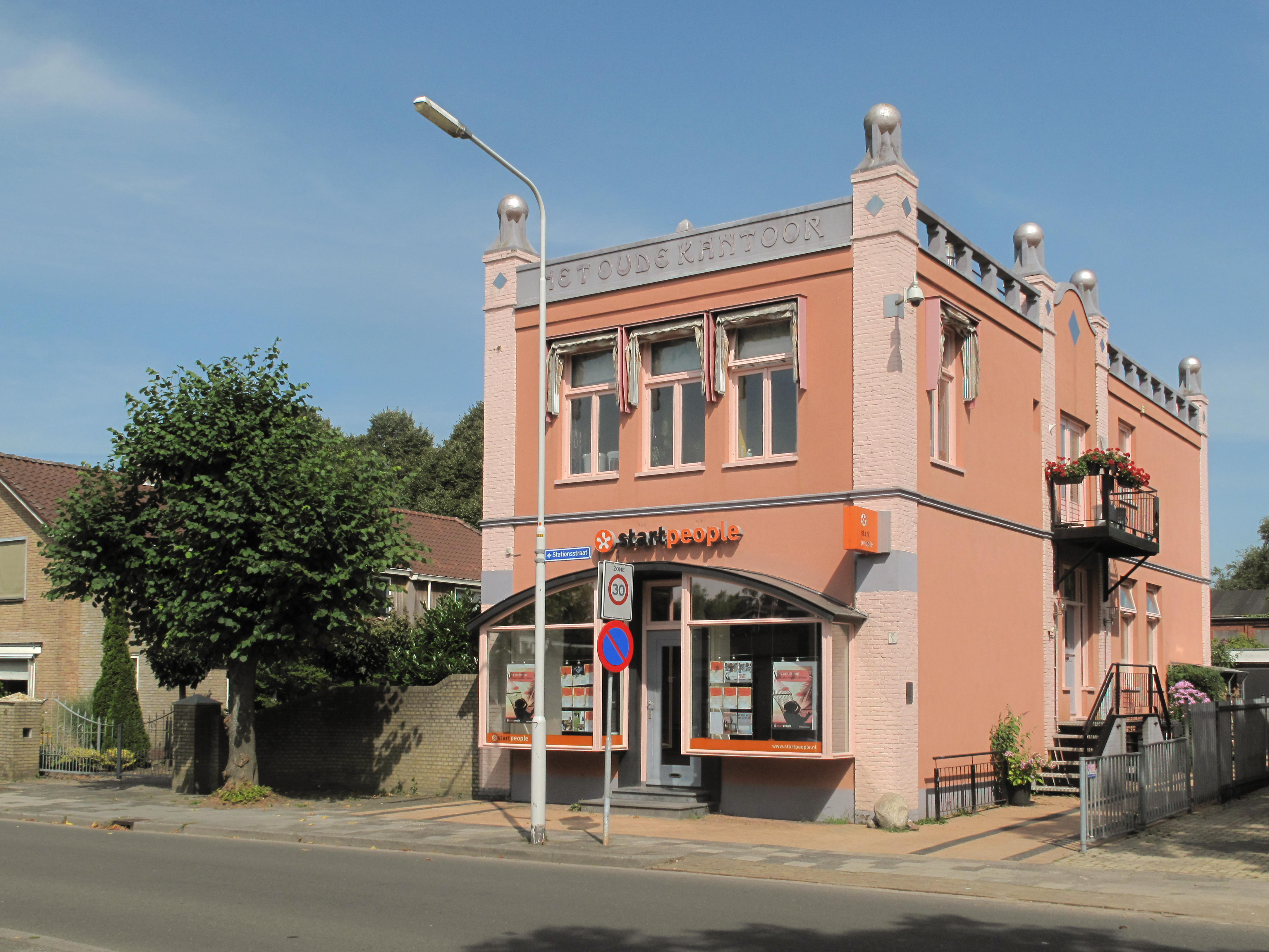 Buitenpost, employment agency in monumental house